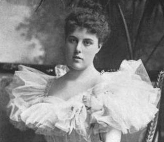 A young white woman, wearing a pale-colored gown with wide ruffles around the neckline.